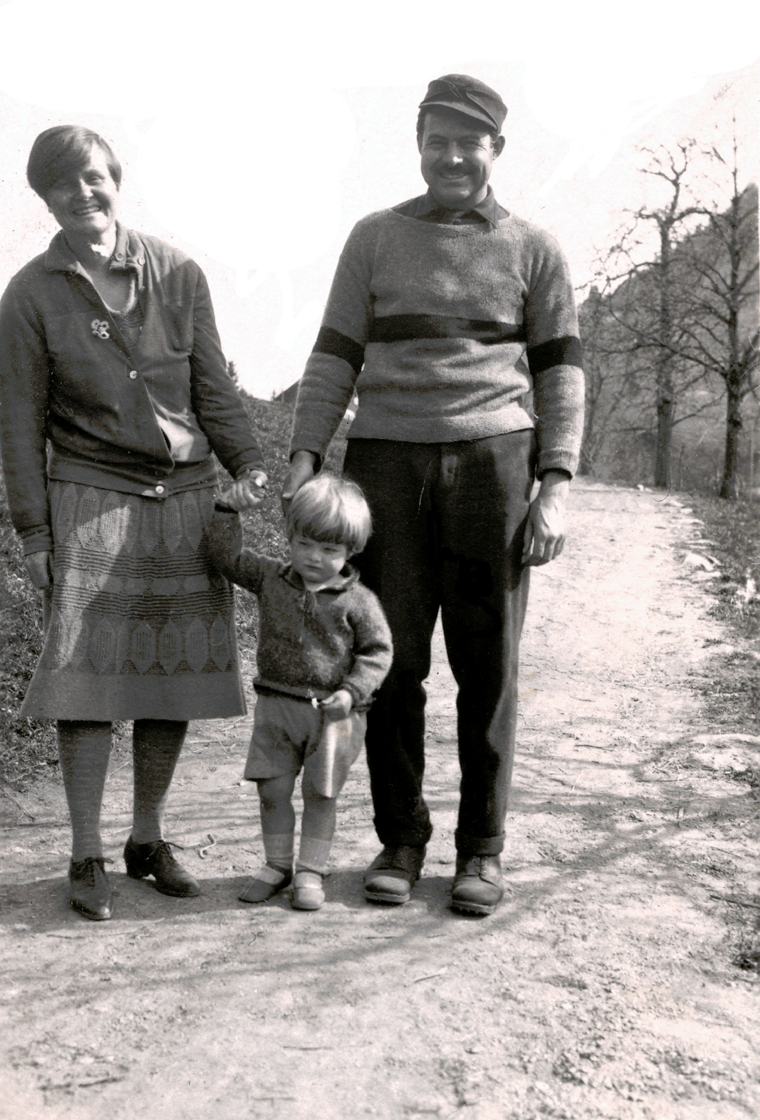 American Author Ernest Hemingway with then-wife Elizabeth Hadley Richardson and son John Hadley Nicanor "Jack" Hemingway (aka "Bumby") in Schruns, Austria